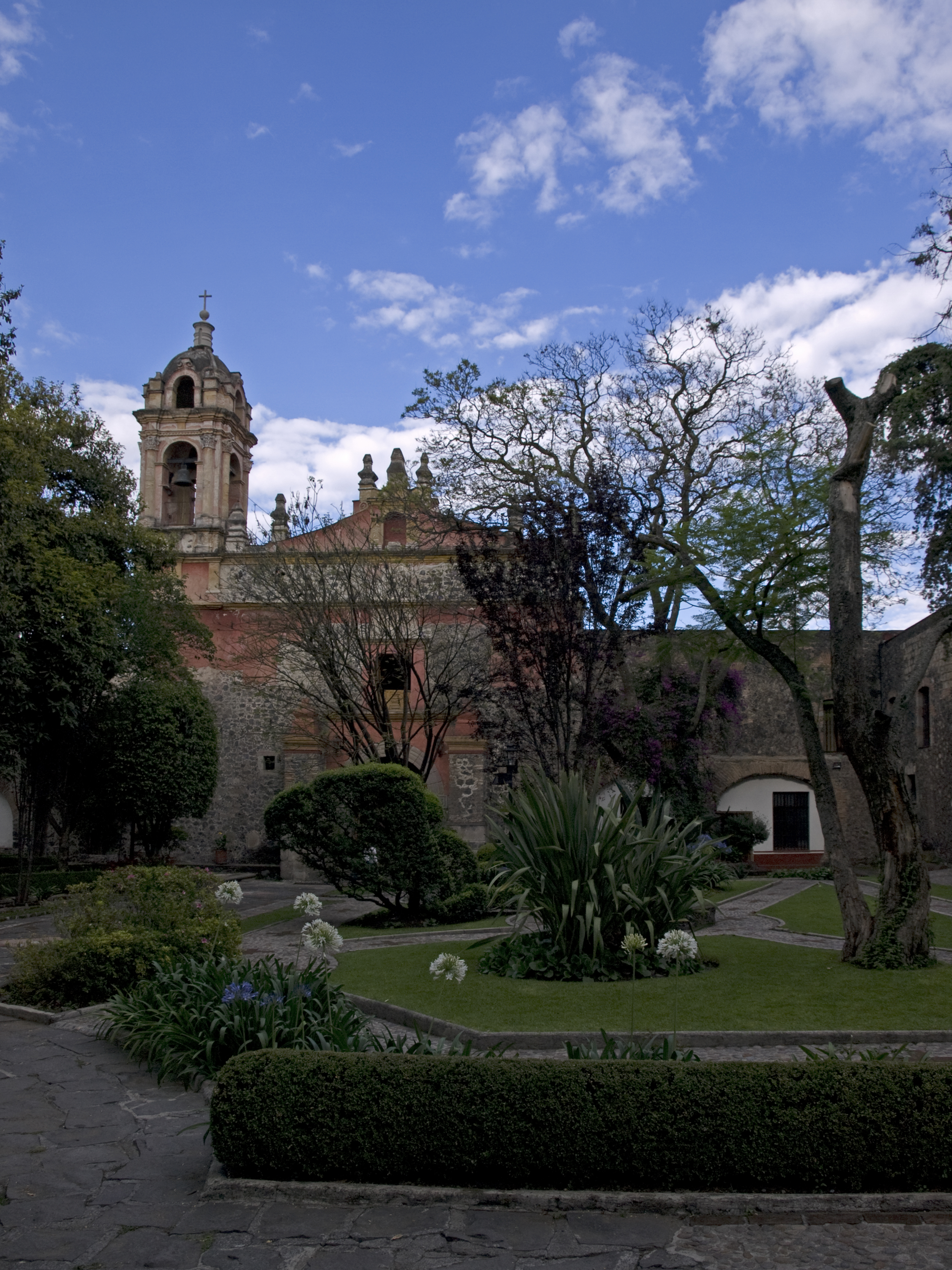 San Jacinto Church, San Ángel